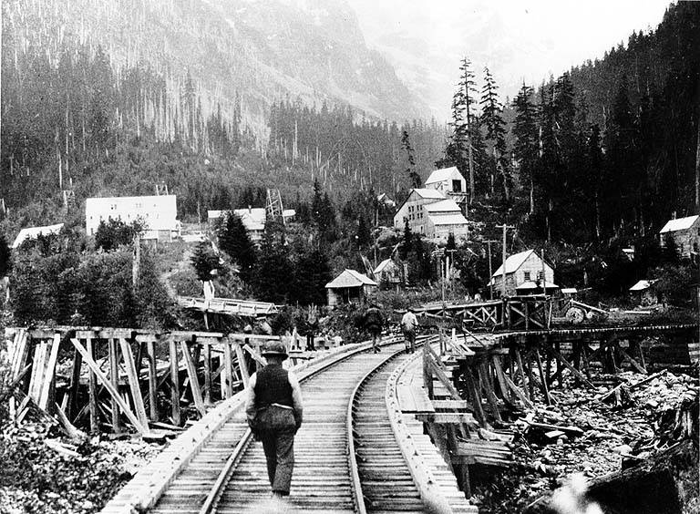 Boston American Mining Company buildings, Monte Cristo, Washington, 1912 Notes: According to Woodhouse's Monte Cristo, the photograph is dated ca. 1919. On verso of image: Monte Cristo townsite, 1912. Boston American cookhouse.